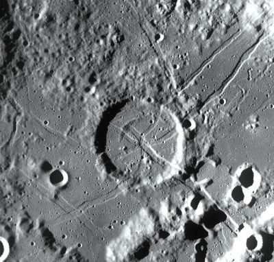 LROC image WAC No. M117826439ME (calibrated by LROC_WAC_Previewer).